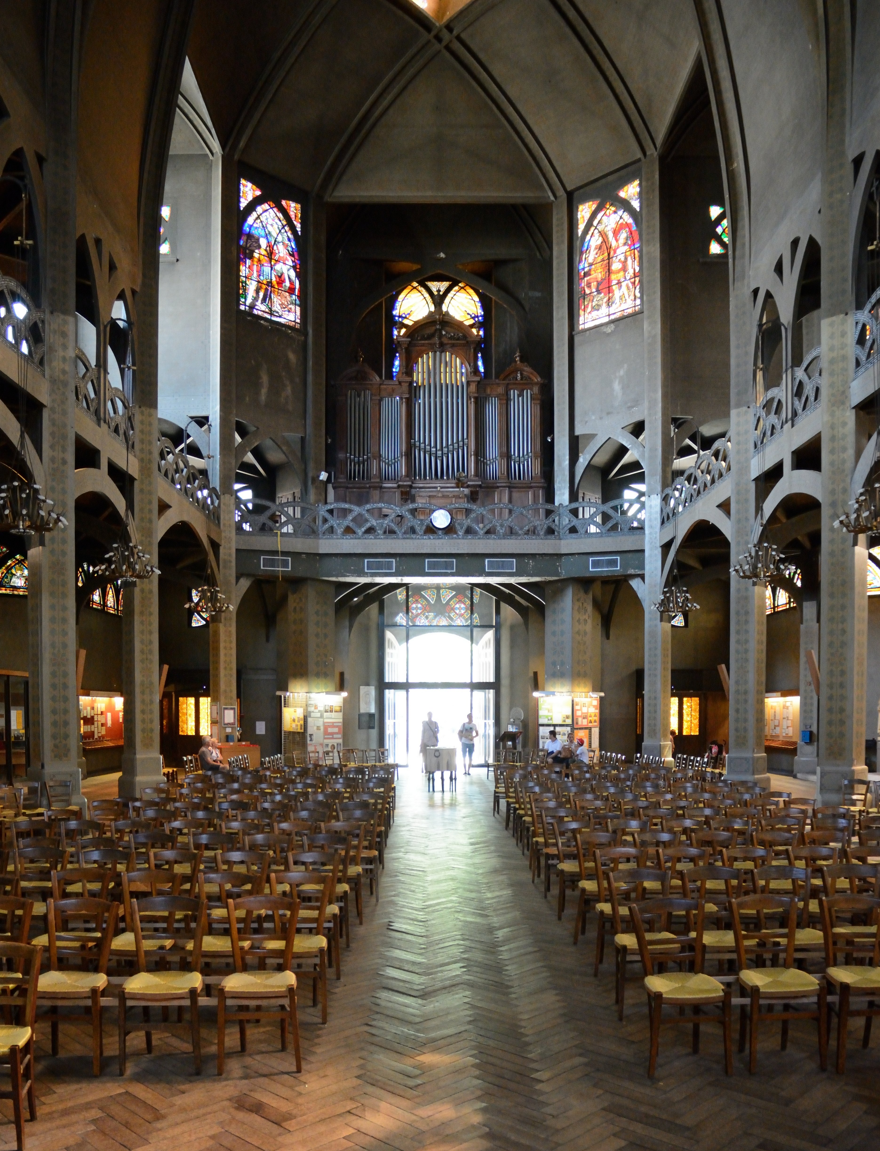 Parish church St-Jean de Montmartre, nave and organ gallery, 16th arr. Paris